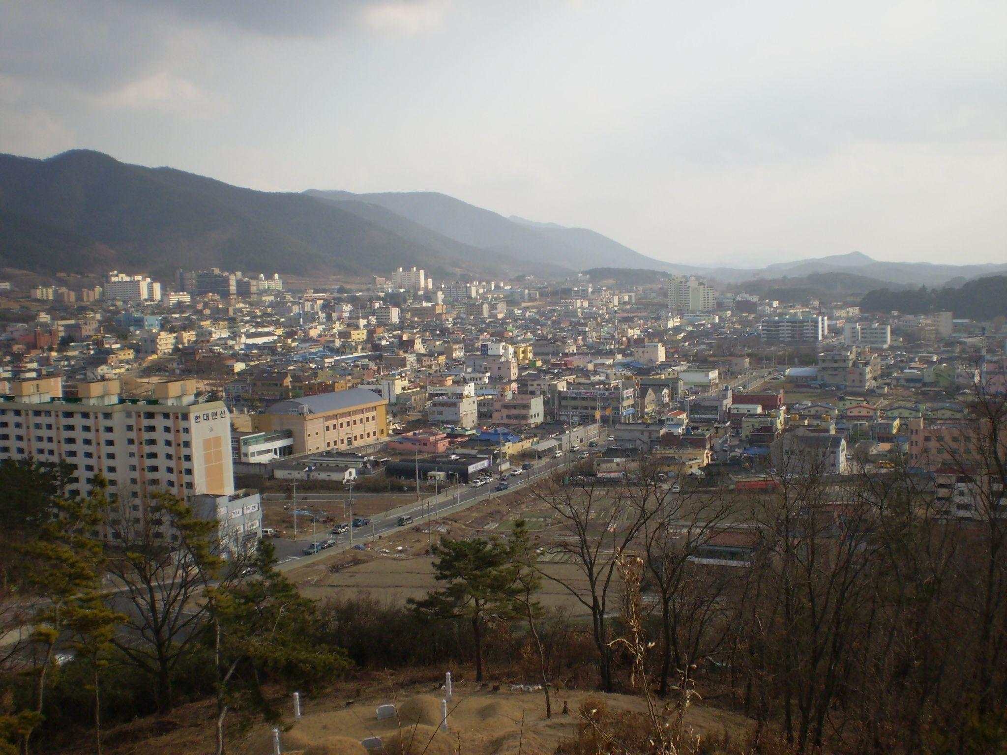 View across the city center, Changnyeong, Gyeongsangnam-do, South Korea.